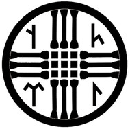 A symbol used by Tengrists, representing the structure of the universe, god Tengri, the roof opening of a yurt, and a shaman's drum.